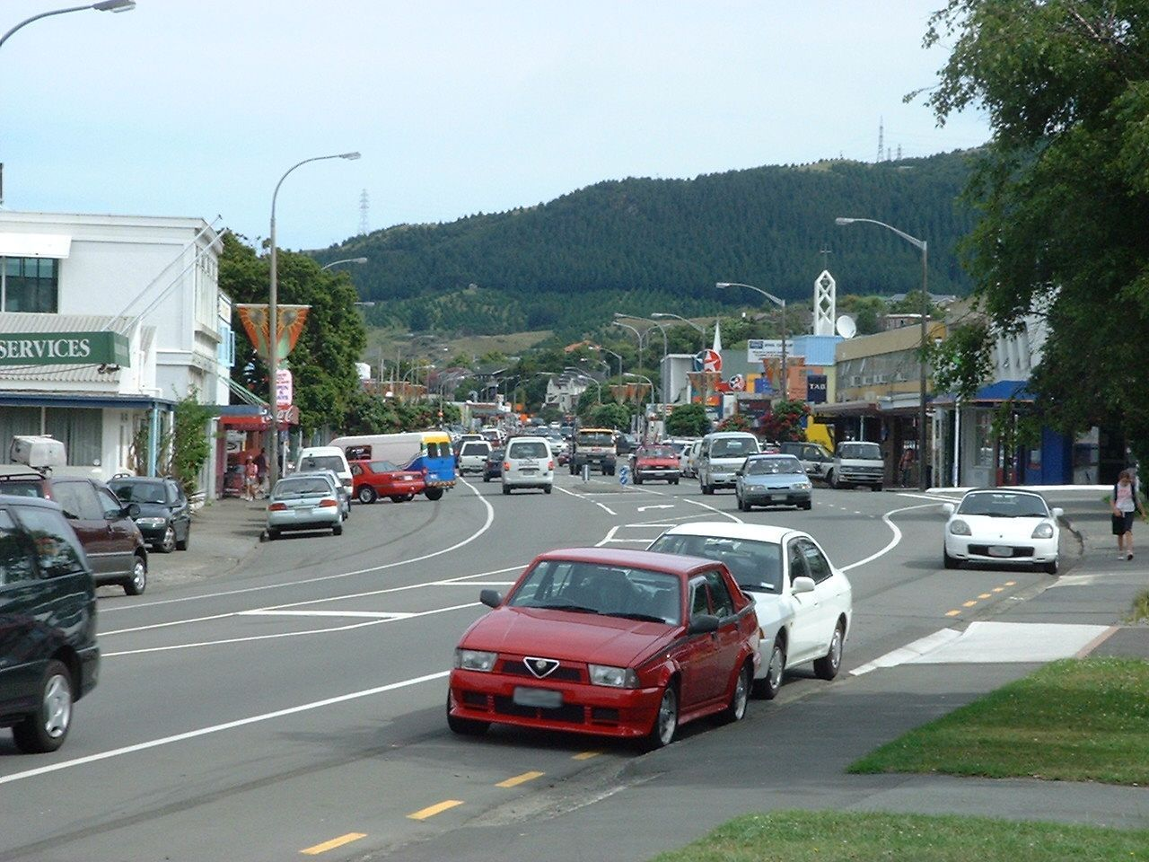 Main street of Tawa, New Zealand. Photographed by Lesley Walker, December 2005.